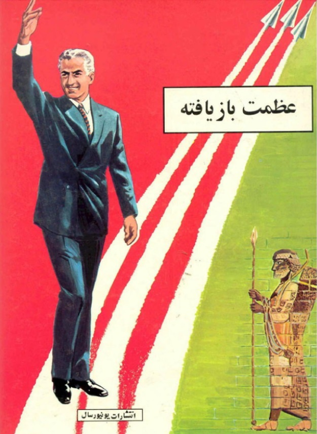 Cover book of The Regained Glory, a book in the subject of Mohammad Reza Pahlavi - 1976